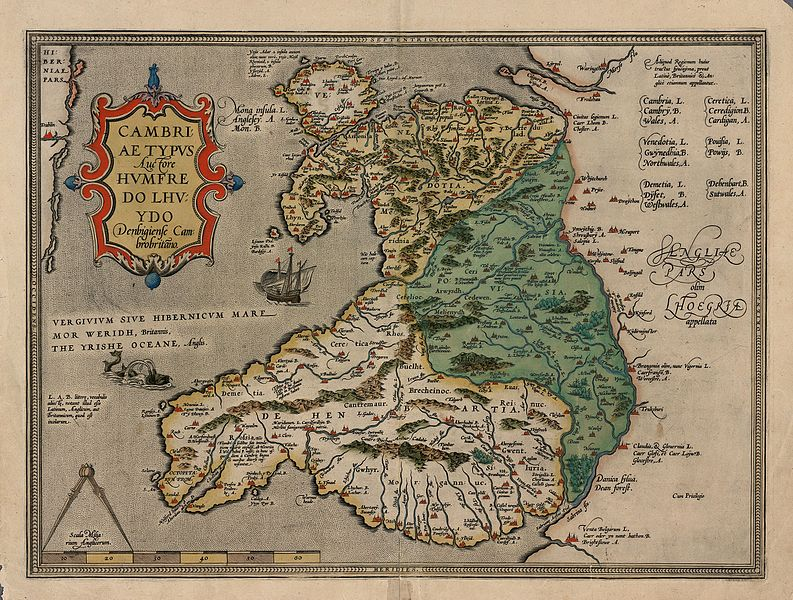 A map of Wales by Humphrey Llwyd. 47.5 x 34.5cm.